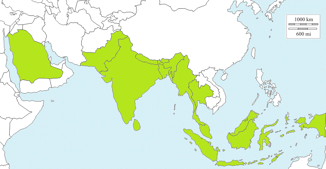 Places where there are settlements of Rohingya.